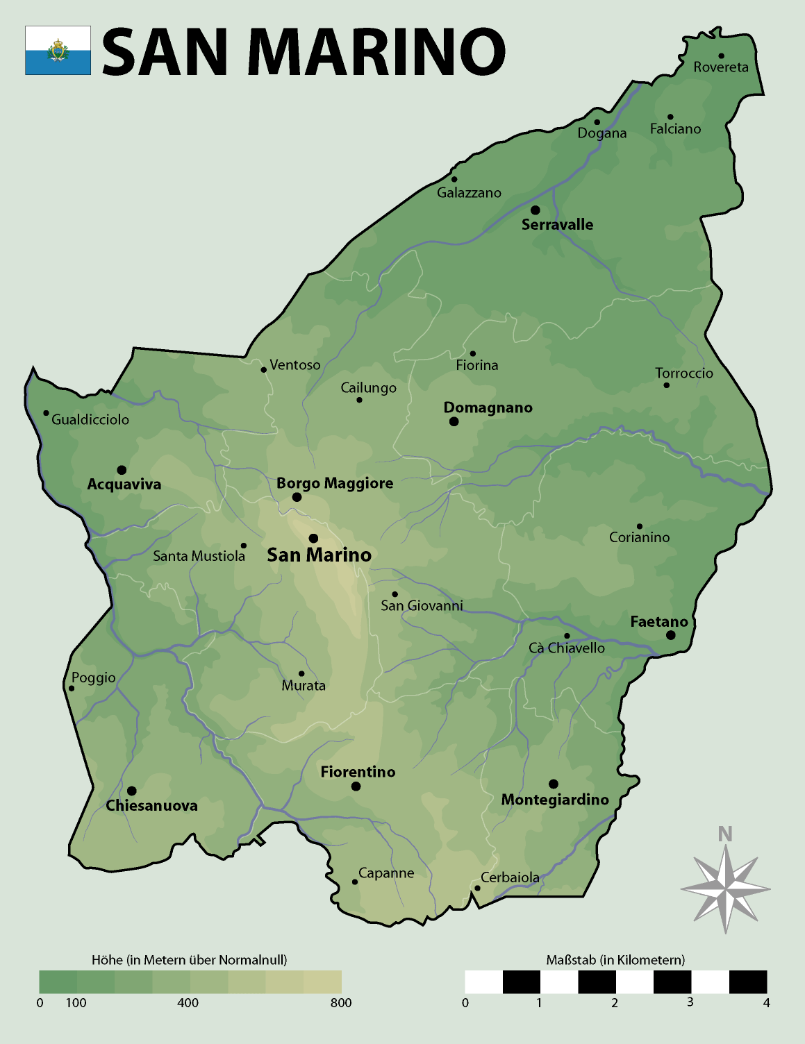 Map of San Marino with German Description